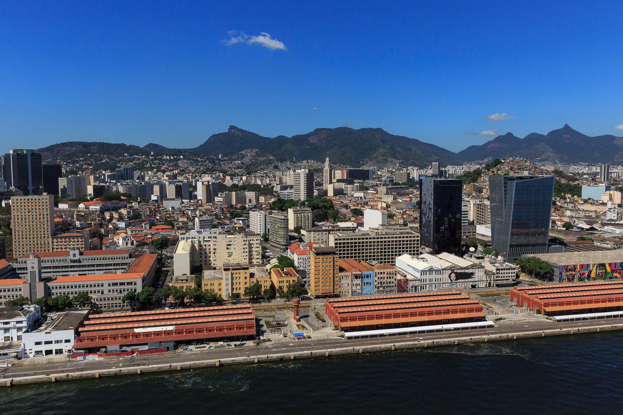 Vista aérea do pier Mauá com o painel Somos todos UM do artista Eduardo Kobra, localizados na cidade do Rio de Janeiro